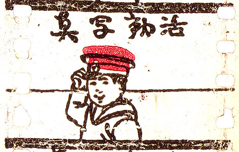 frame of the animated short film Katsudō Shashin (currently in possession of Natsuki Matsumoto).